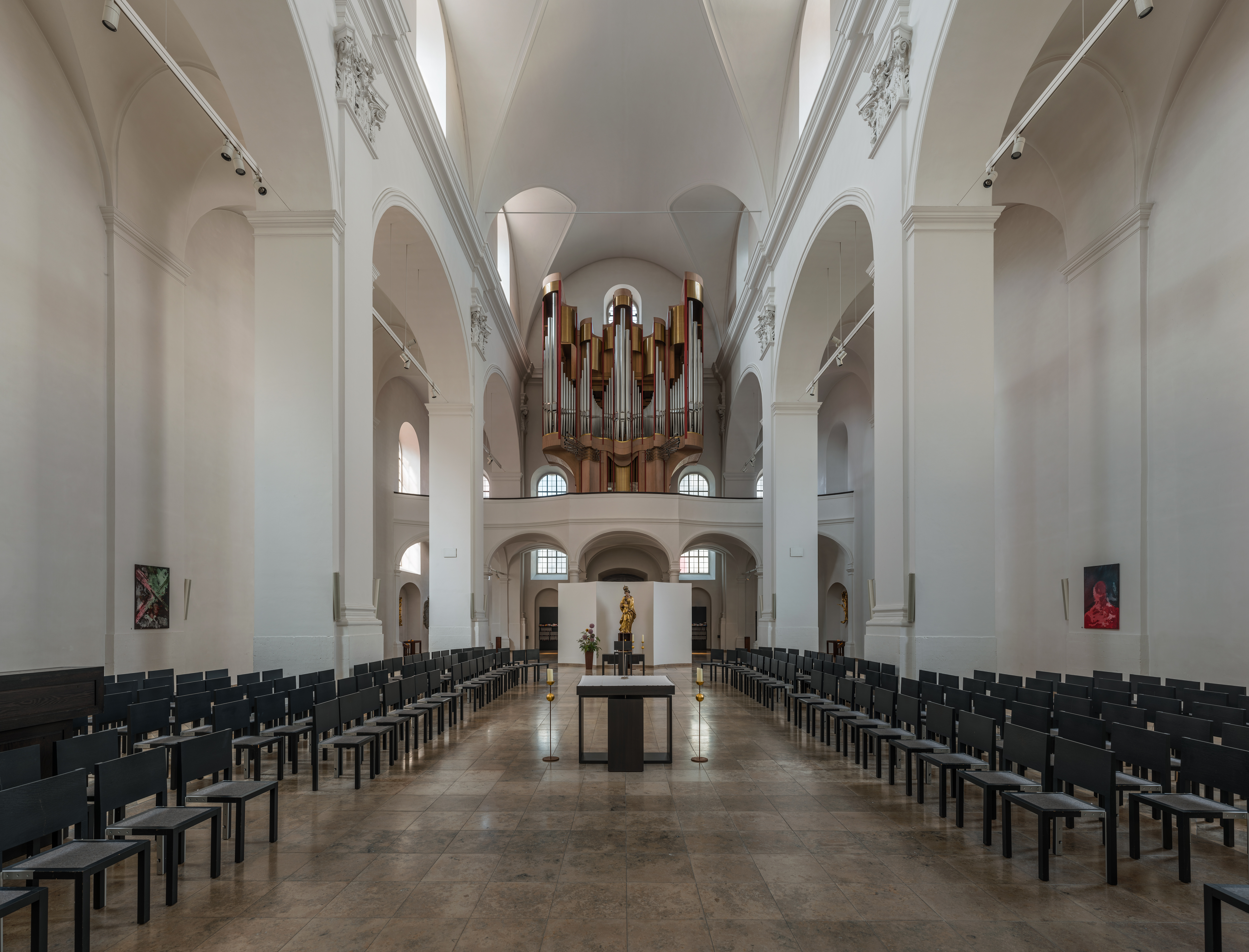 The nave and organ of Augustinerkirche, WürzburgThis is a photograph of an architectural monument.